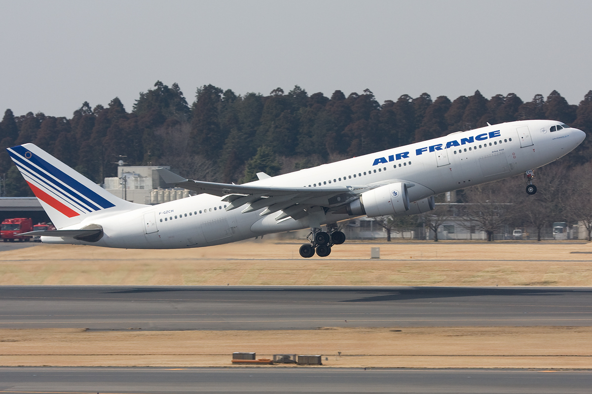 Air France Airbus A330-200 F-GZCH departing Tokyo-Narita Airport, Japan